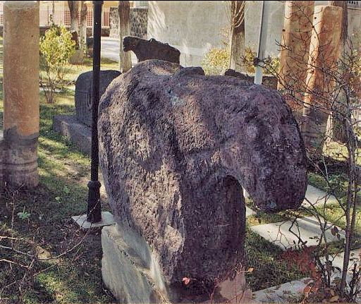 A sheep gravestone in Iğdır